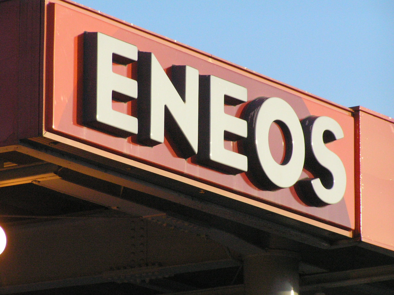 ～photo by Autumn Snake NIPPON OIL CORPORATION看板